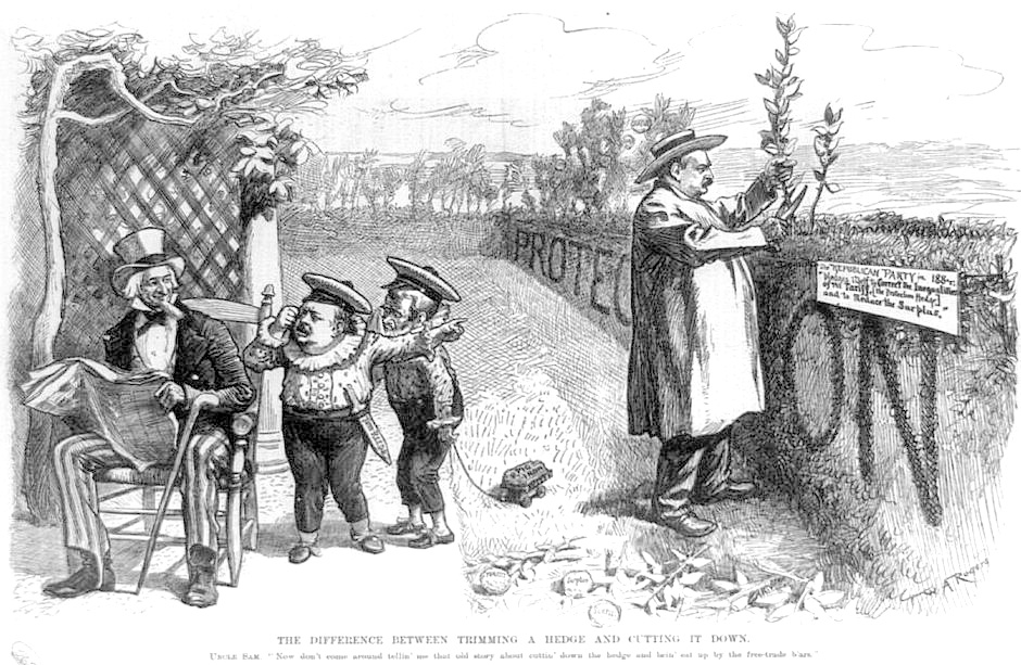 Political cartoon showing Thomas Brackett Reed as a boy, crying to Uncle Sam, with another boy pulling small wagon "pig iron, Kelley," while President Grover Cleveland trims "tariff, the protection hedge" to reduce the "surplus".